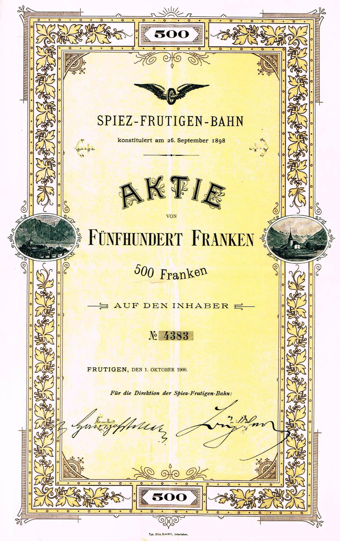 Share of the Spiez-Frutigen-Bahn, issued 1. October 1900